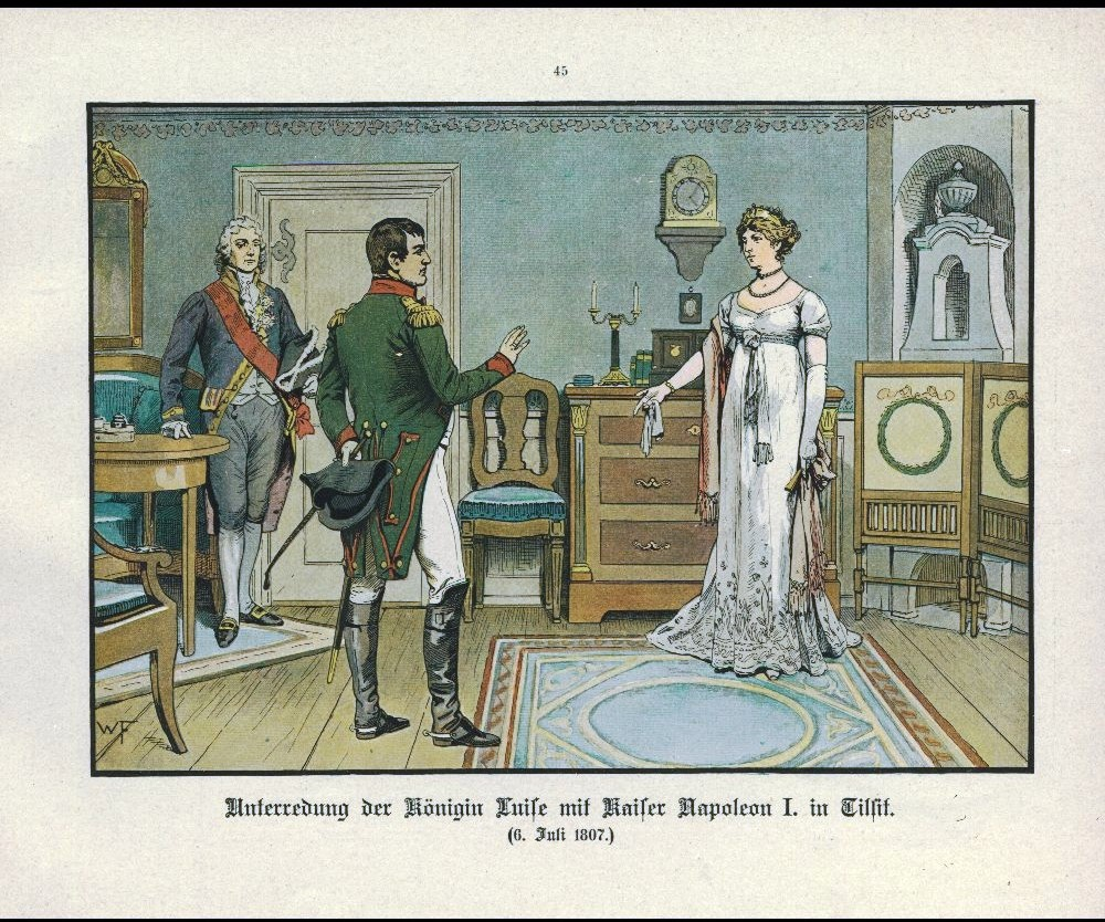 Conversation with Napoleon in Tilsit, 1807 From: "Queen Louise in 50 pictures for young and old" , Publishing house Paul Kittel, Berlin 1896.